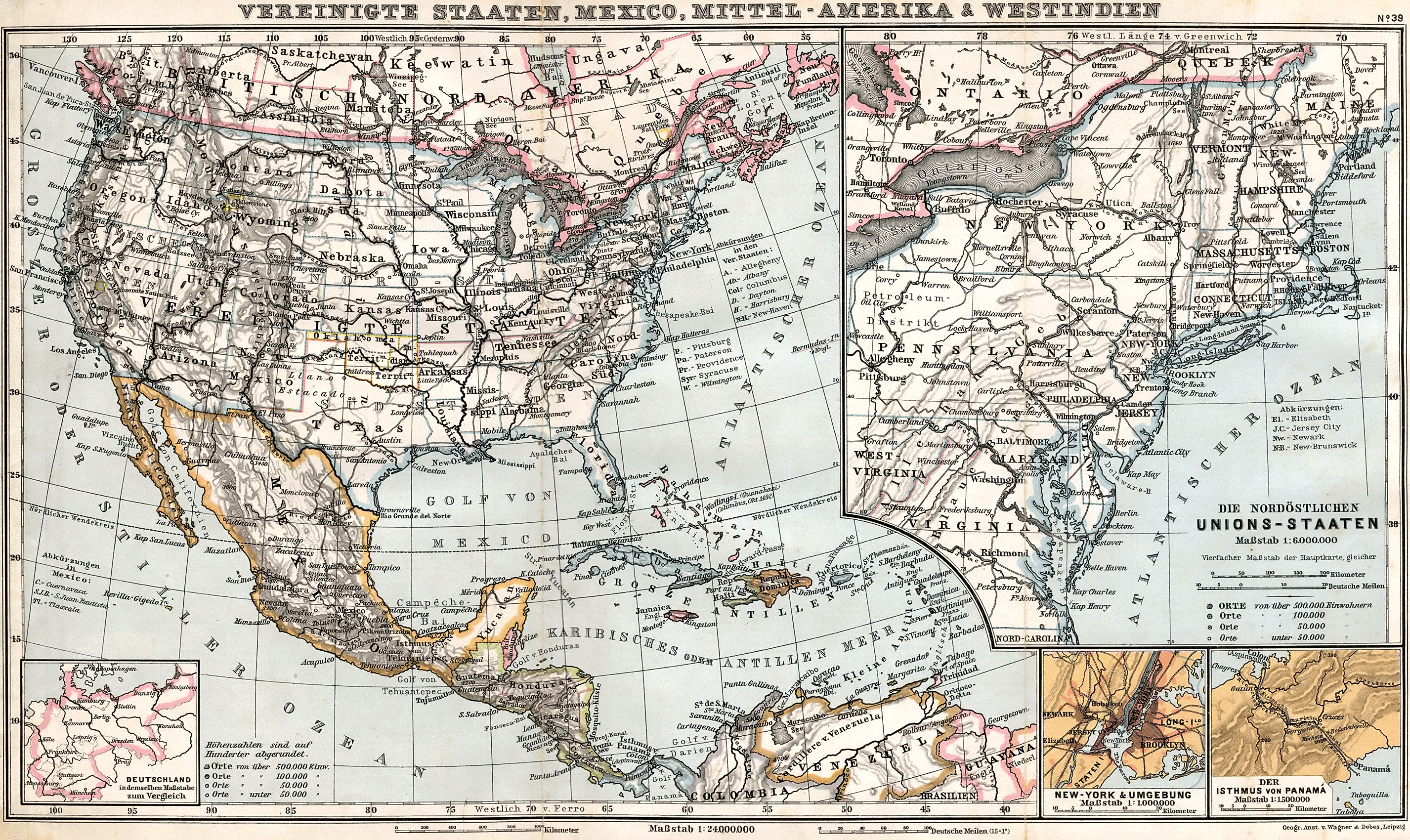 Historical map of the United States, México, Central America, West Indies (1905)